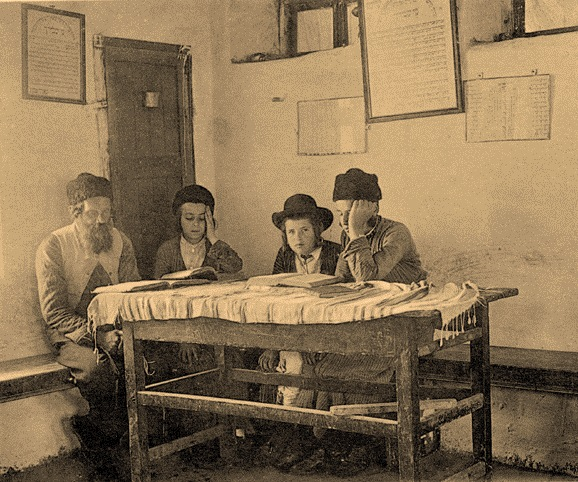 Talmud Torah, Meron, Palestine, 1912